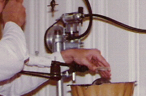 StationNT5Bmedia 03:22, 26 June 2007 (UTC)